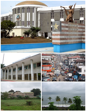 by David Stanley by Rjruiziii by Erik (HASH) Hershman by Michael Keating by ph